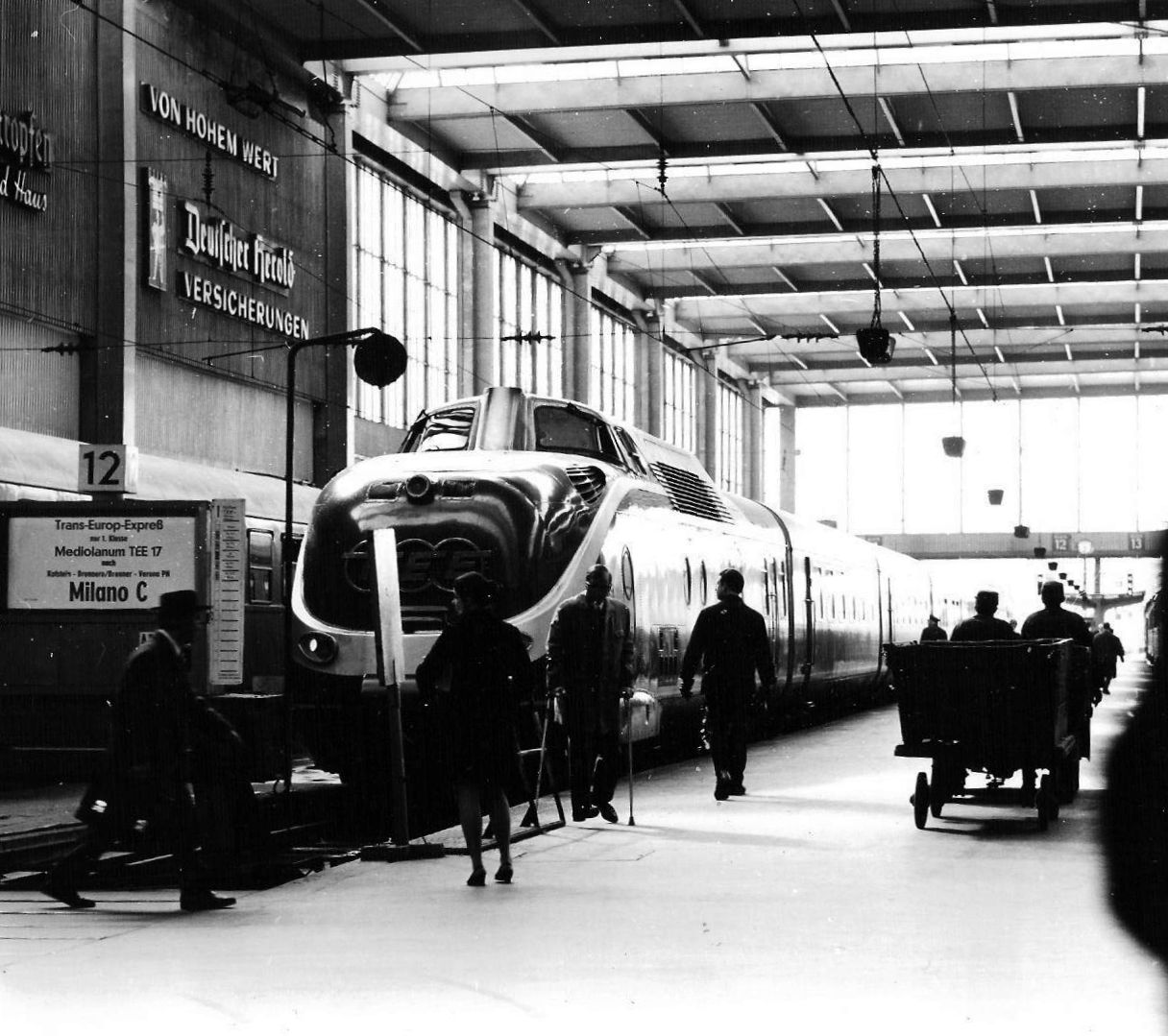 TEE Mediolanum at Munich Main train station.